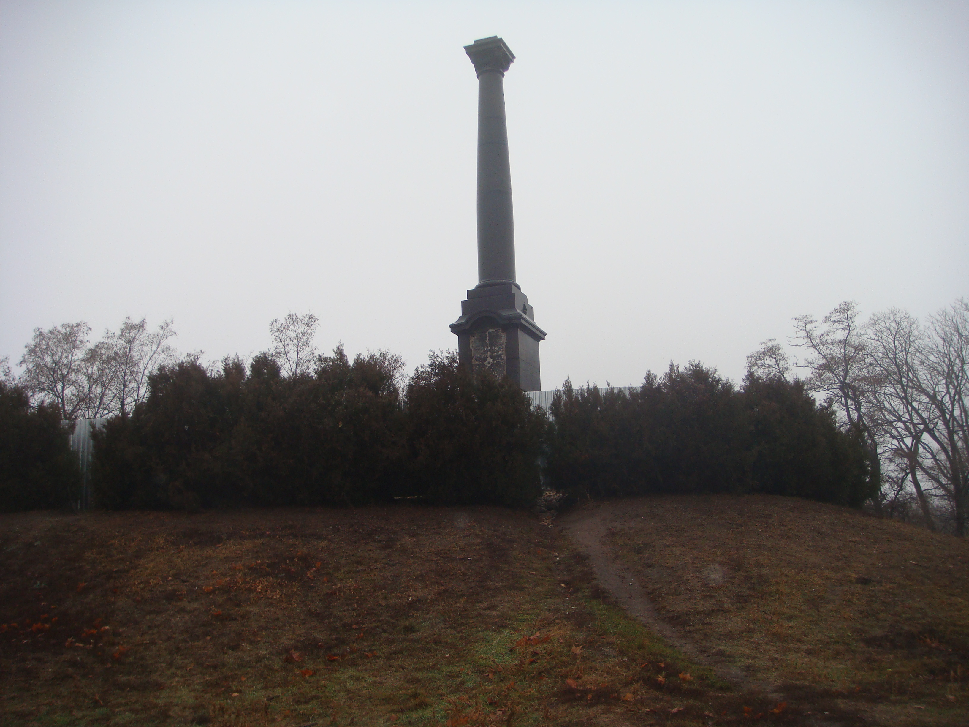 Monument to Alexander II, Emperior of Russia, erected in Odessa, Russian Empire in 1891. Condition as of December 2011.